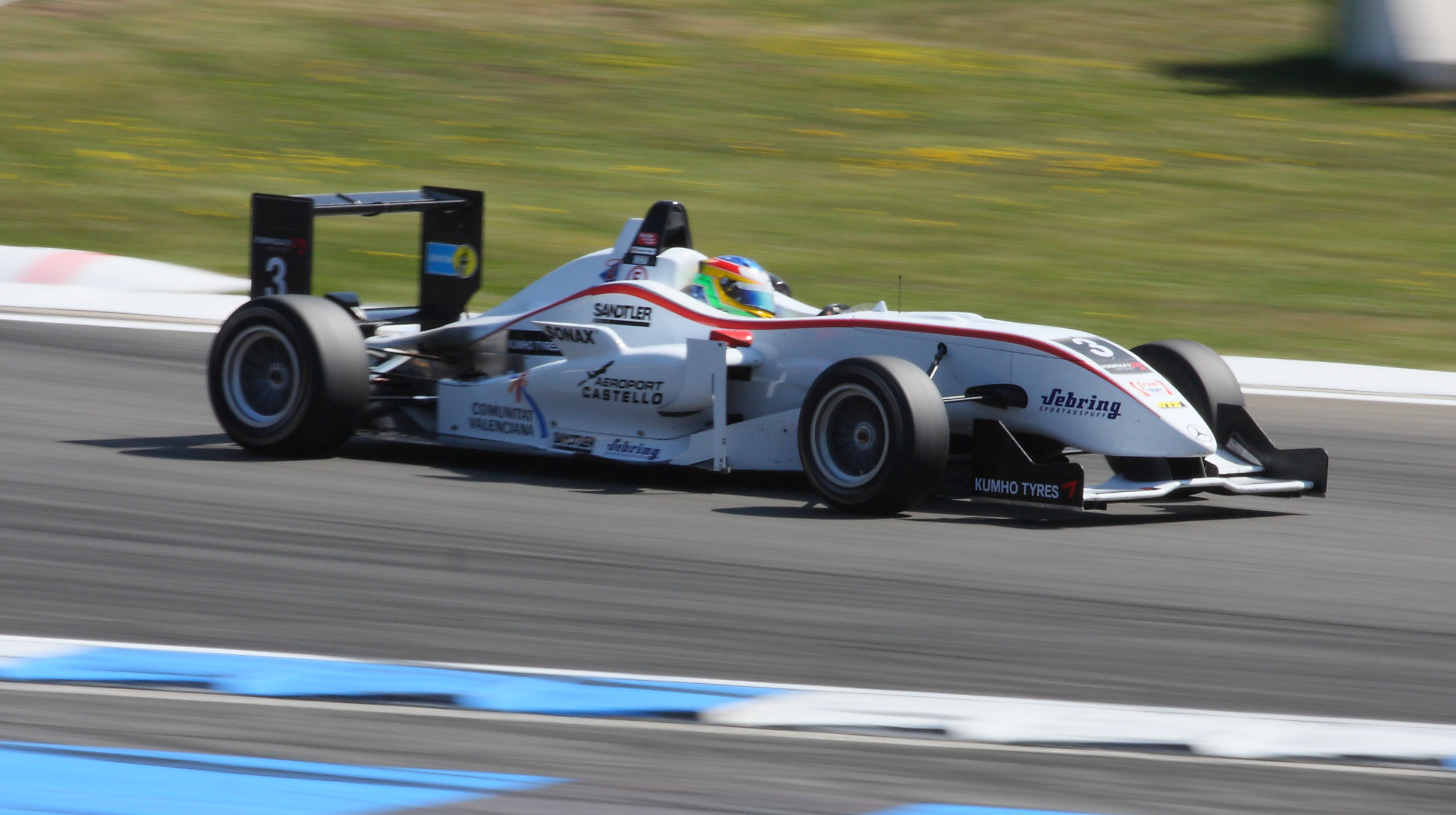 Formula 3 Euroseries, Hockenheimring; Roberto Merhi